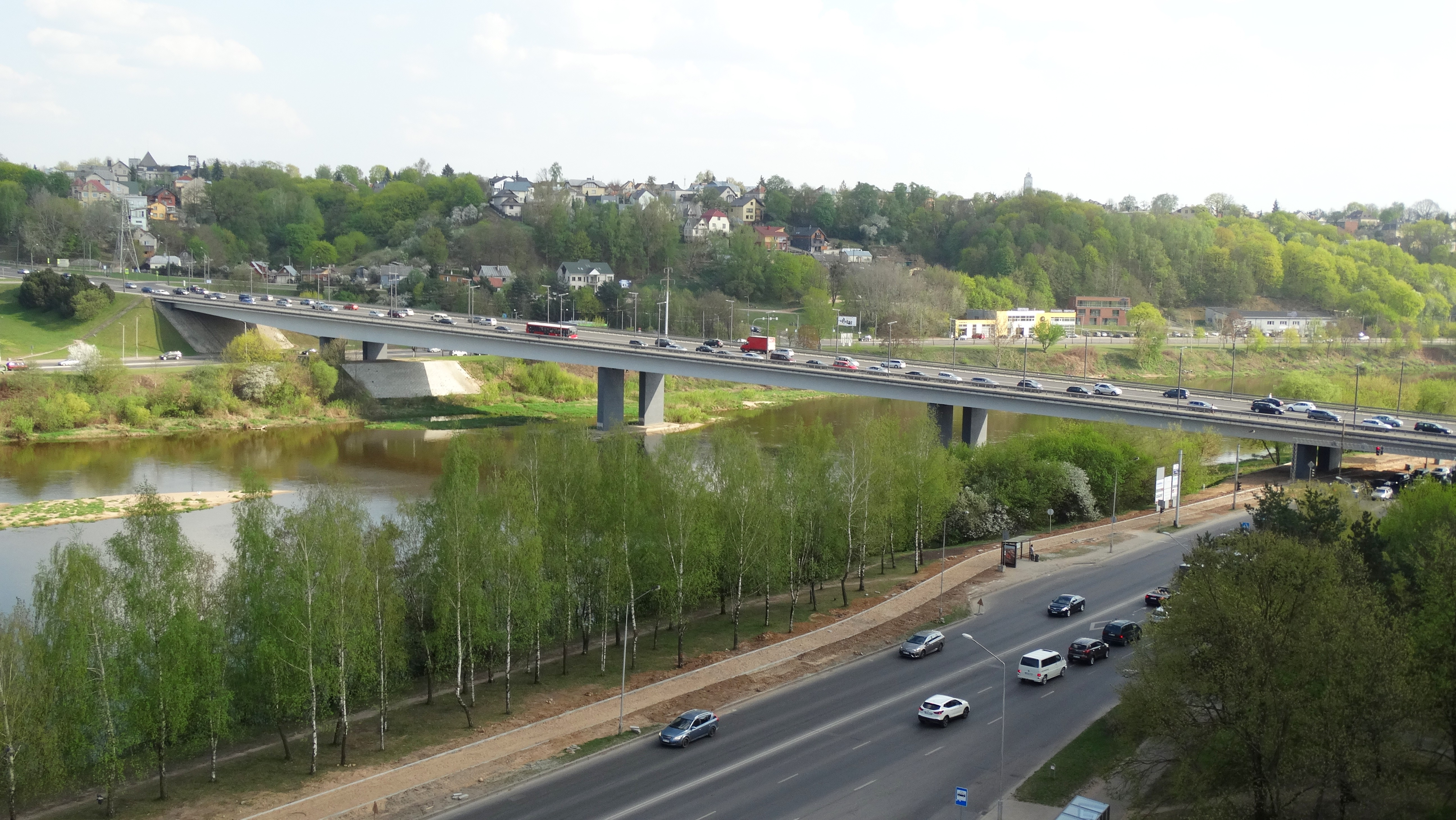 Varniai bridge, Kaunas, Lithuania